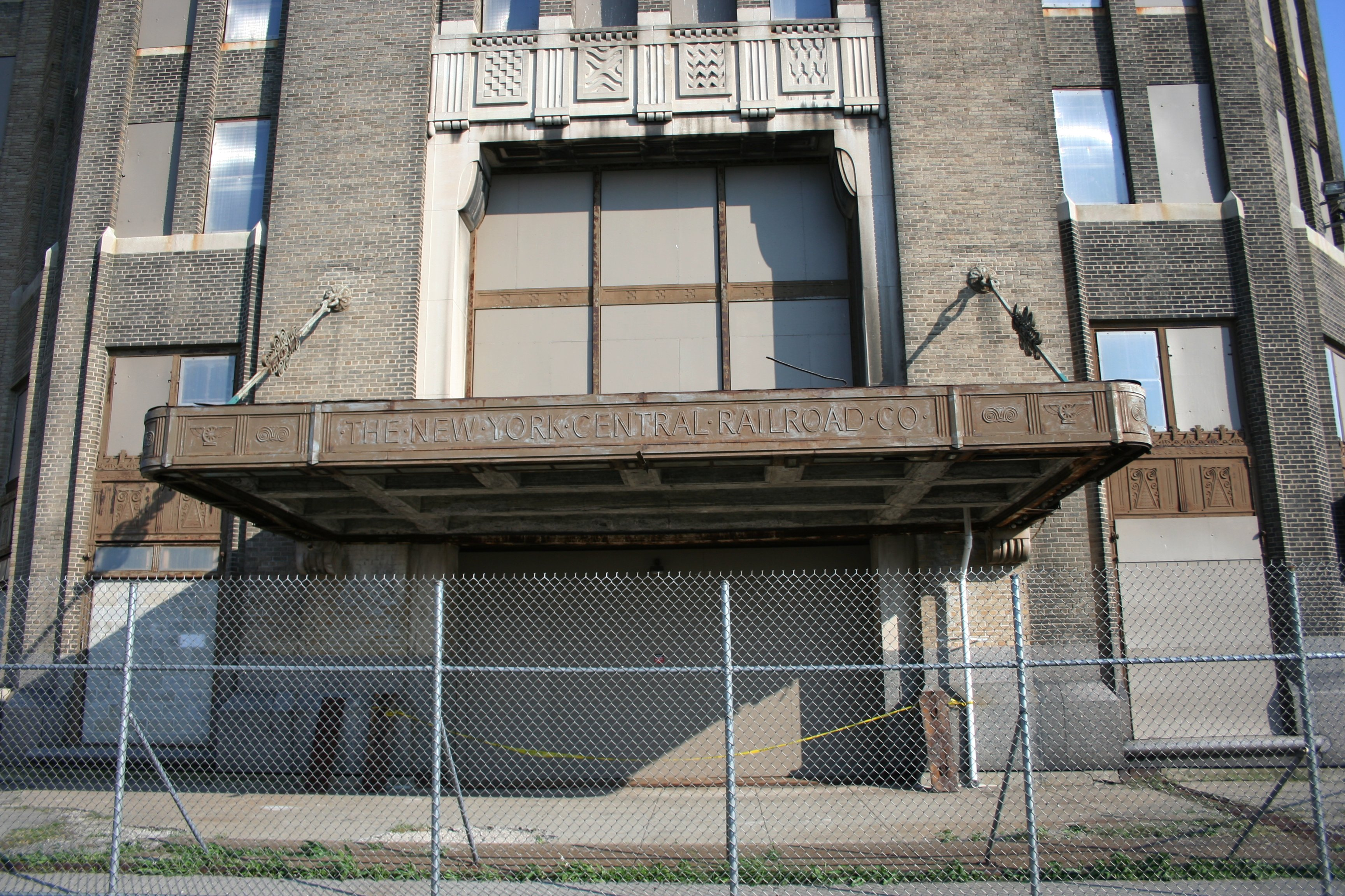 Buffalo Central Terminal - closeup of one of the entrances, on the northwest side.